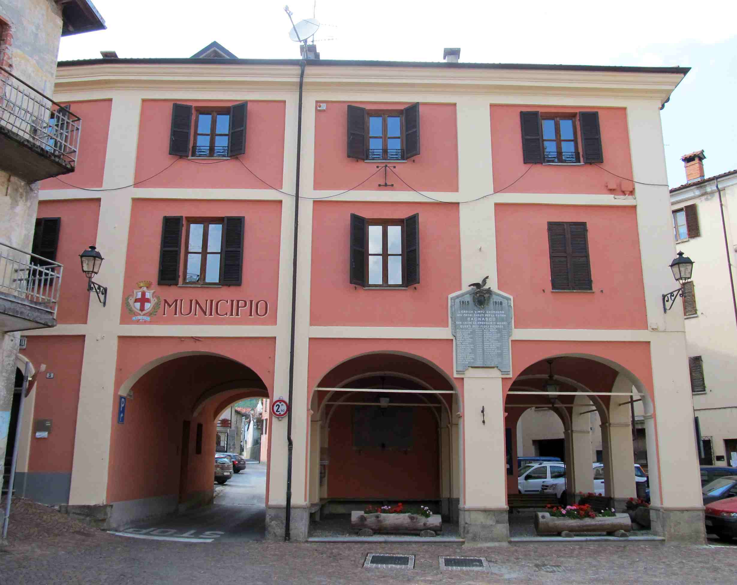 Bagnasco (CN, Italy): town hall